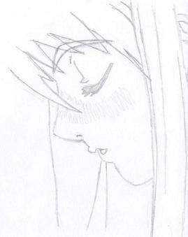 Hitomi from doa, manga pencil (for profile) made by me --S&T Kawaii Love